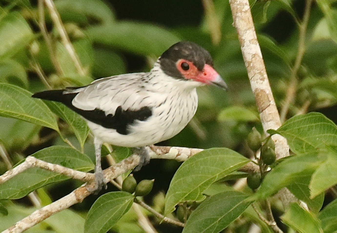 Female, Sacha Lodge - Ecuador